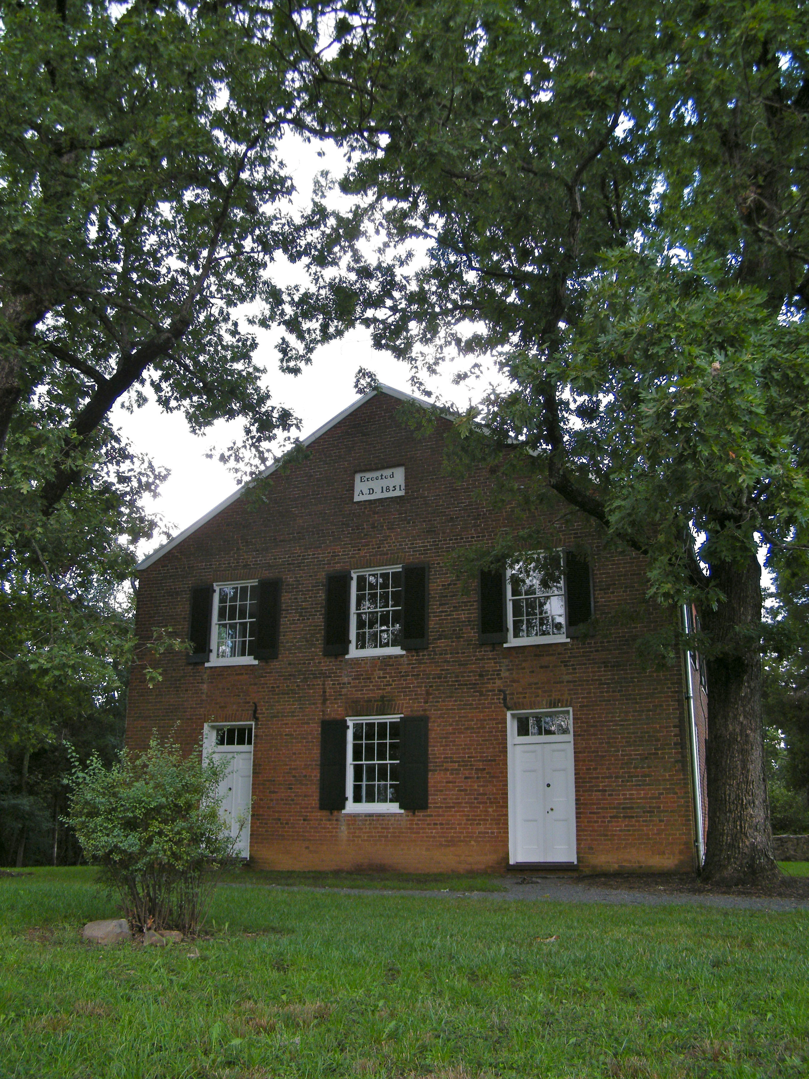 "During the Civil War, this 1851 church served as a rendezvous site for Confederate Colonel John S. Mosby's men, a barracks, prison, hospital, and burial ground for Confederate and Union soldiers. Interior closed for restoration. Listed on the National Register of Historic Places." (Information from